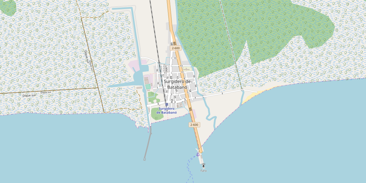 This map may be incomplete, and may contain errors. Don't rely solely on it for navigation.